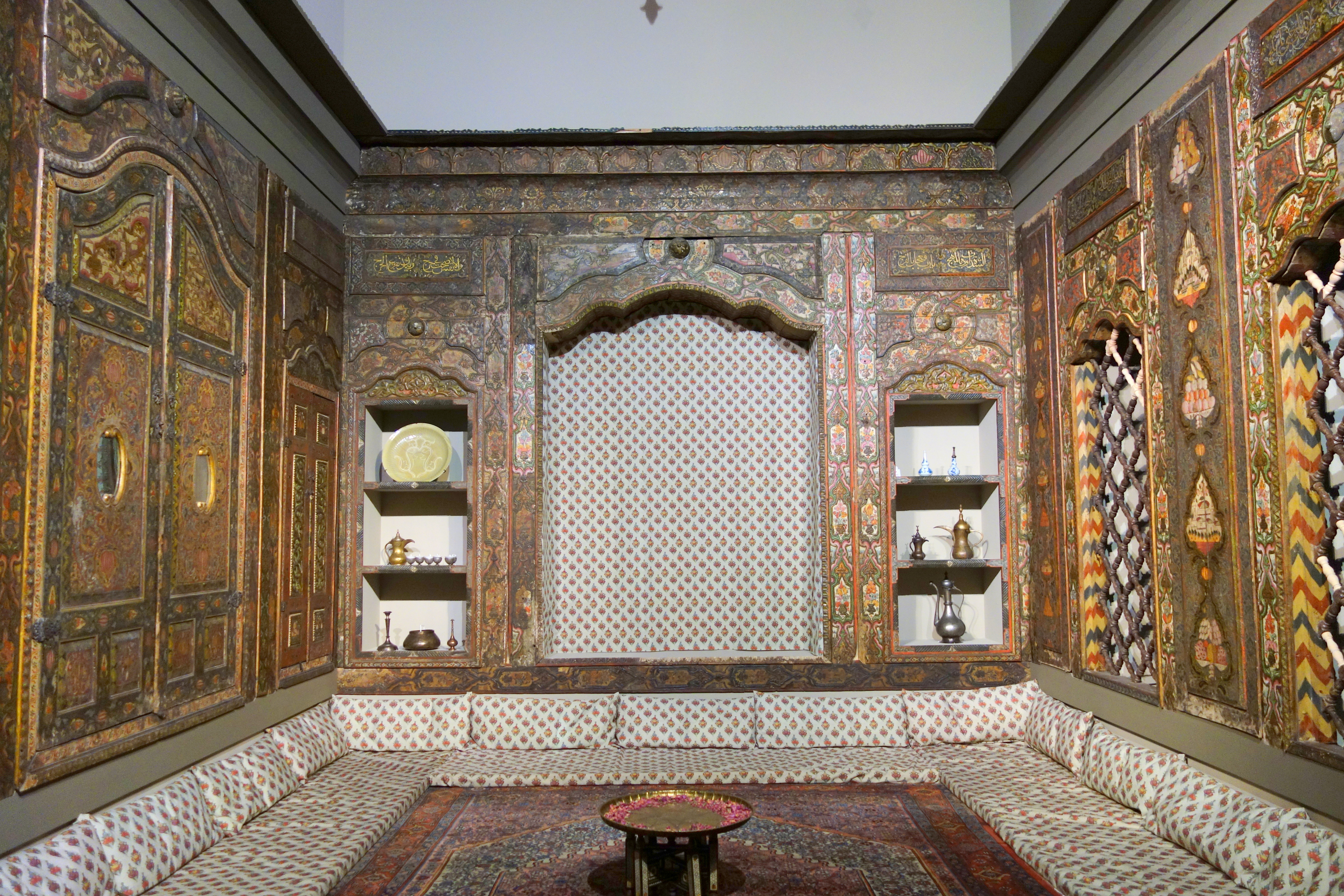 Dresden Damascus Room, Museum für Völkerkunde, Dresden, Germany. All artwork is old enough so that it is in the public domain.